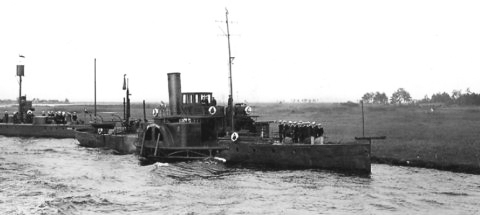 Ships of Flotilla on the Pina River